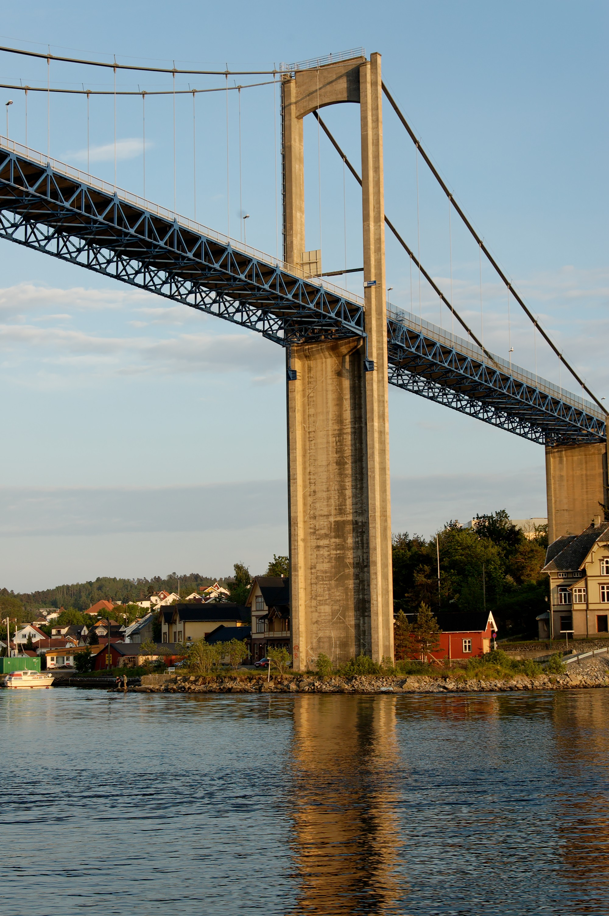 Brevik bridge